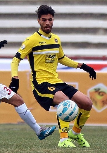 Milad Sarlak